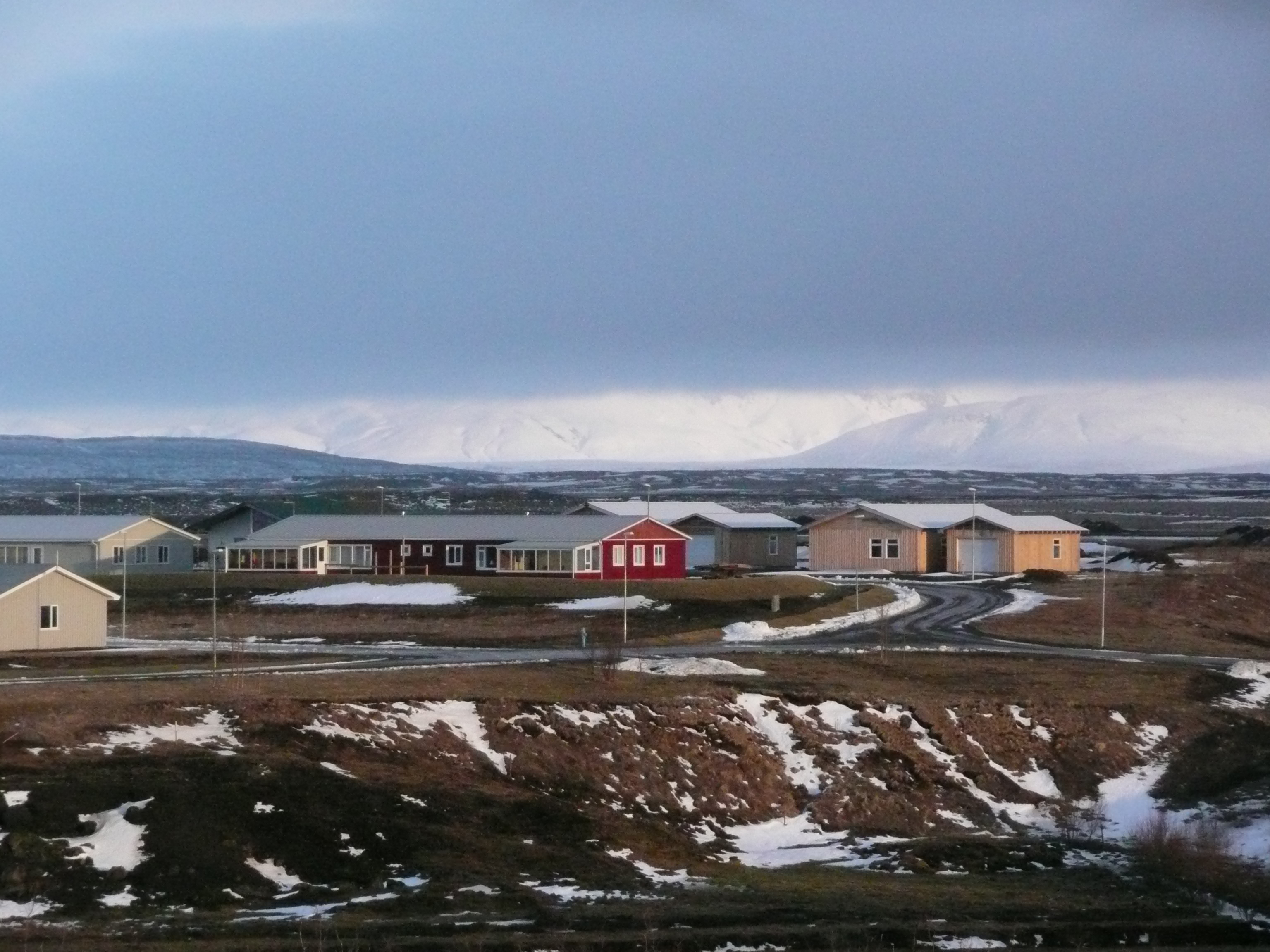 Fludir, south west iceland